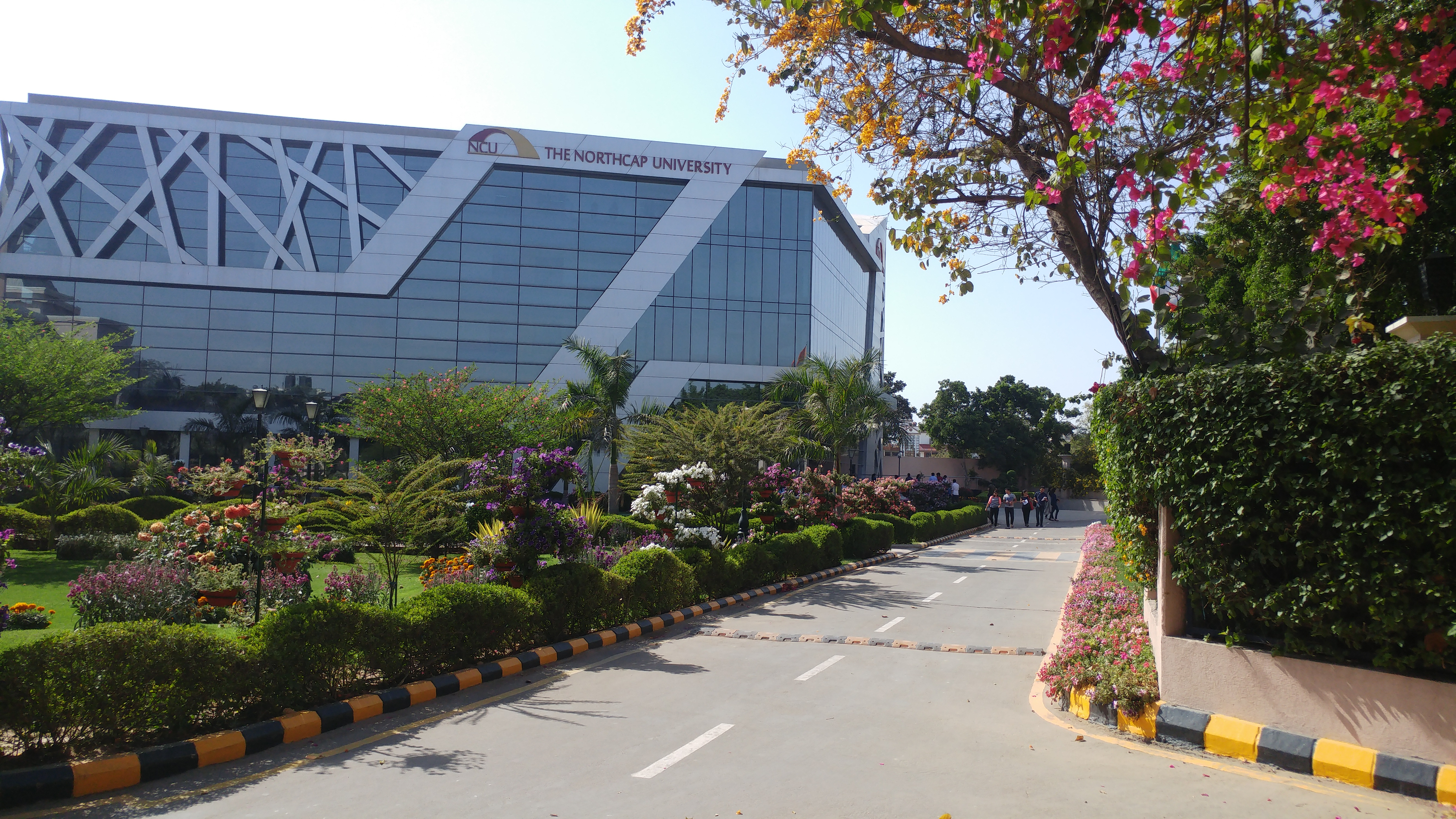 NCU Building Picture